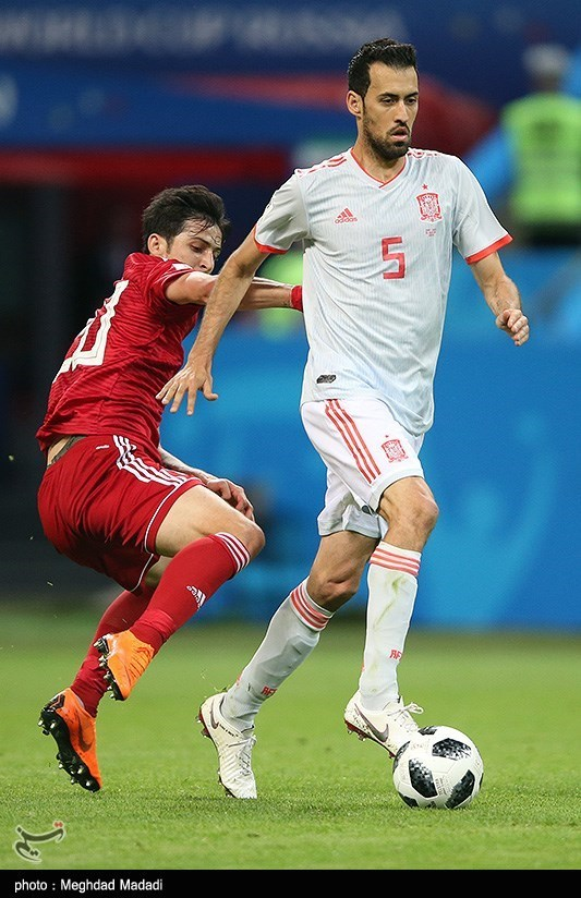 Iran and Spain match at the FIFA World Cup 2018 in Russia.